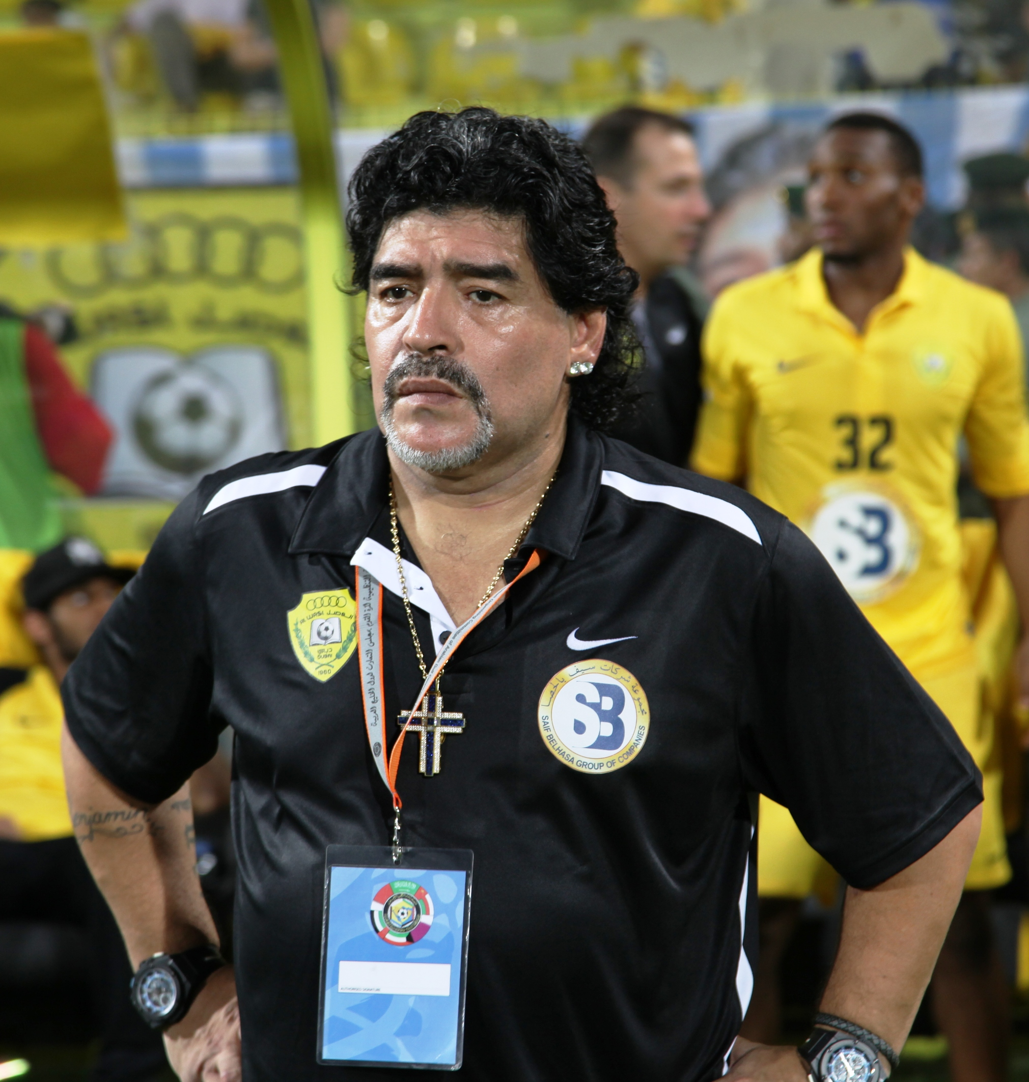 Diego Maradona at 2012 GCC Champions League final